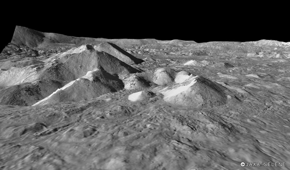 Low oblique view of central peaks at Jackson crater , Kaguya image